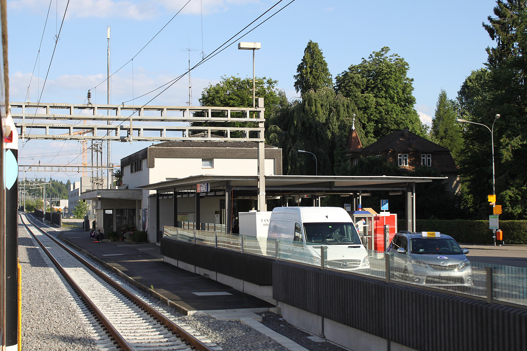 Muri AG railway station.